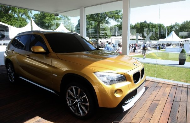 BMW Concept X1 at the BMW PGA Championship